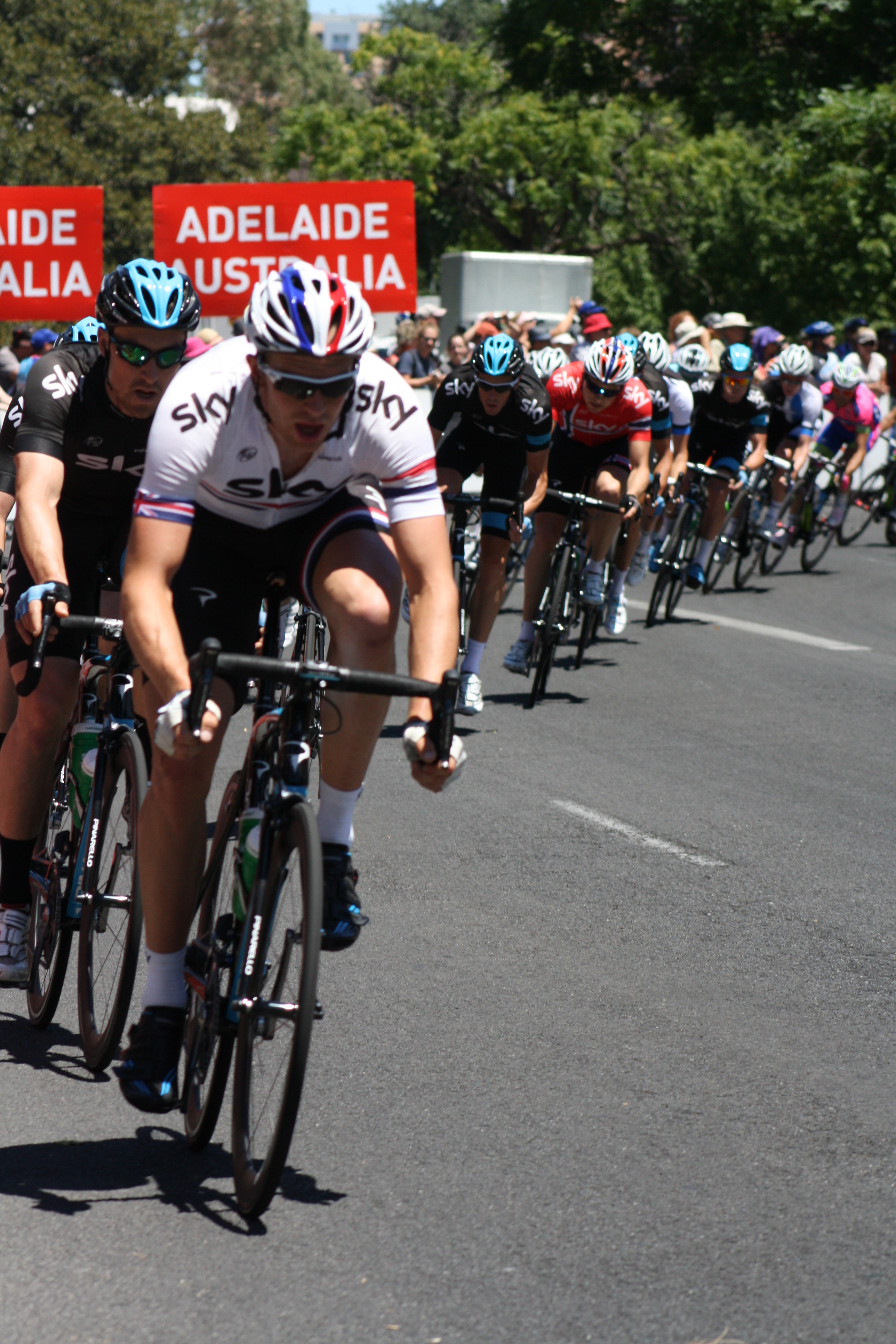 Stannard pulling the Sky Train